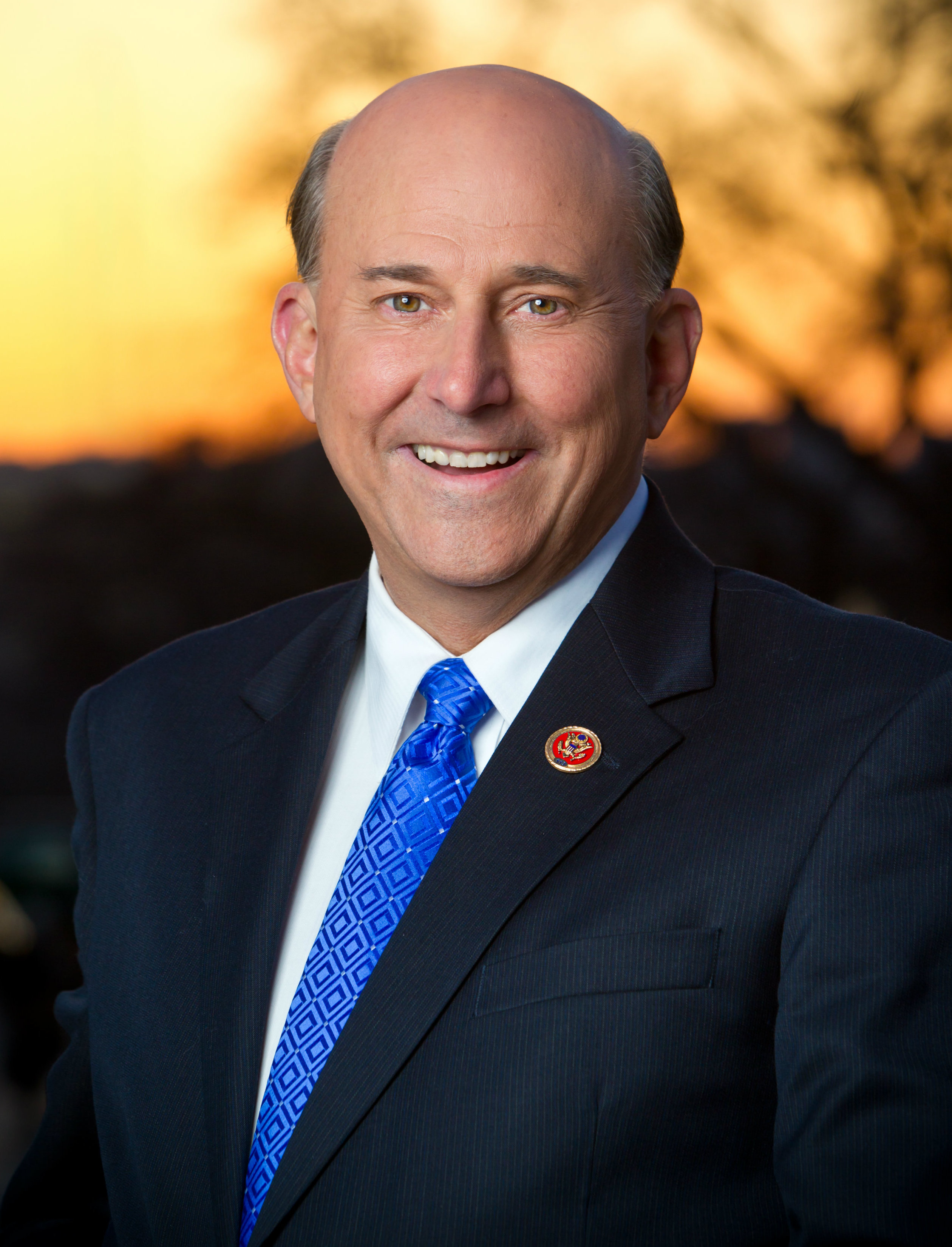 Louie Gohmert official congressional photo, 2013